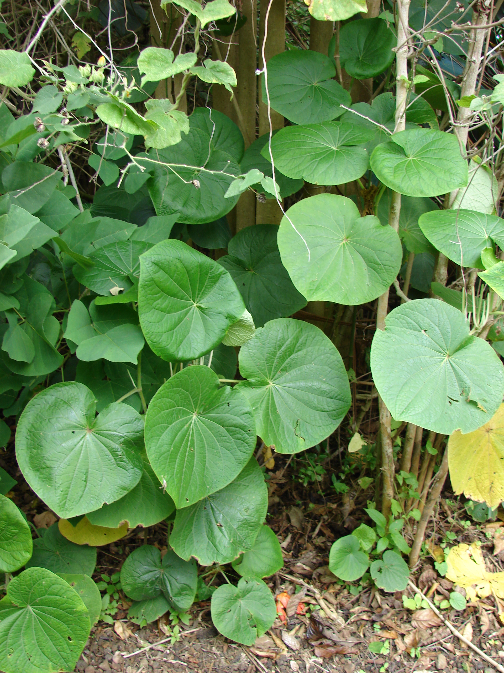 Macropiper puberulum (habit). Location: Maui, Enchanting Gardens of Kula